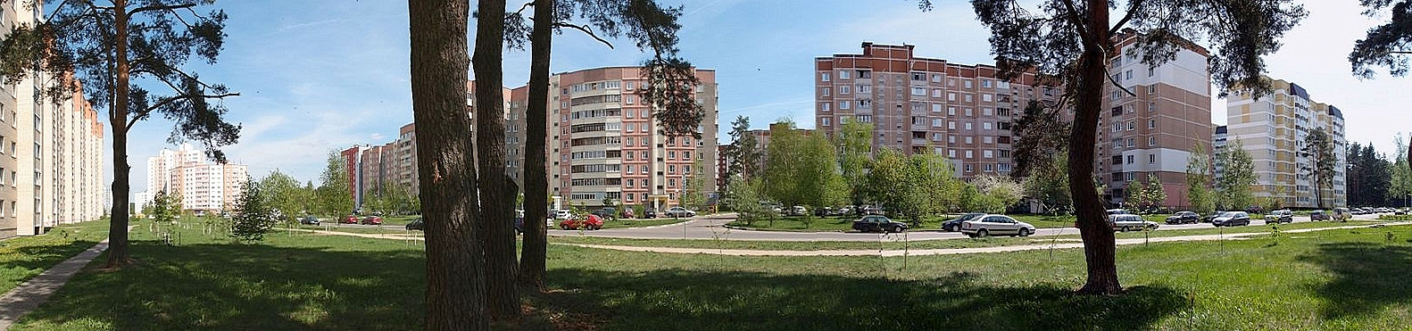 New locality in Minsk